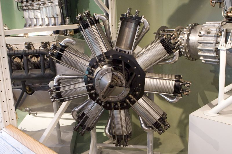 Bentley AR1 rotary aircraft engine on Canada Aviation Museum, Ottawa